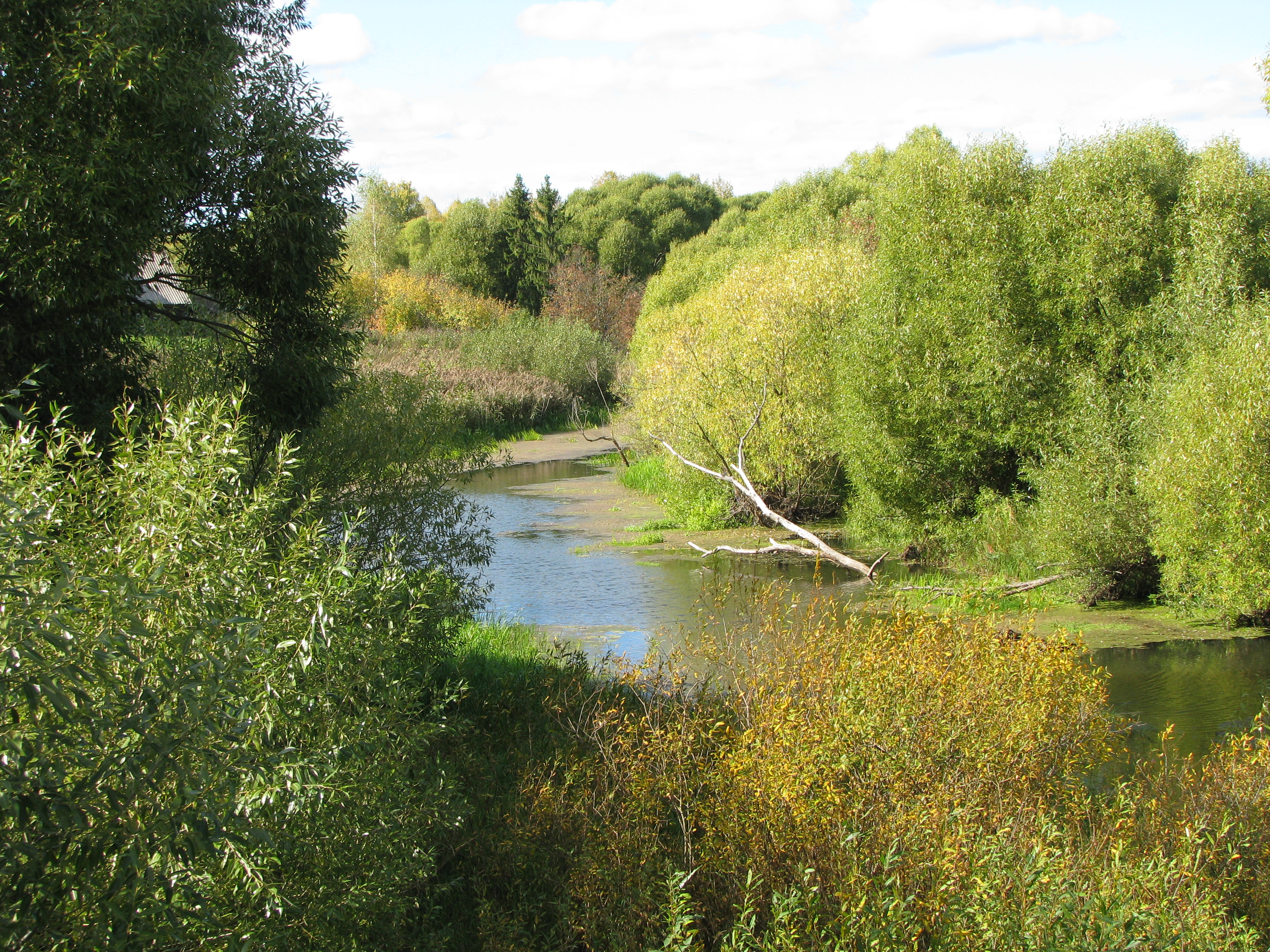 Parsha River near Parskoe Village